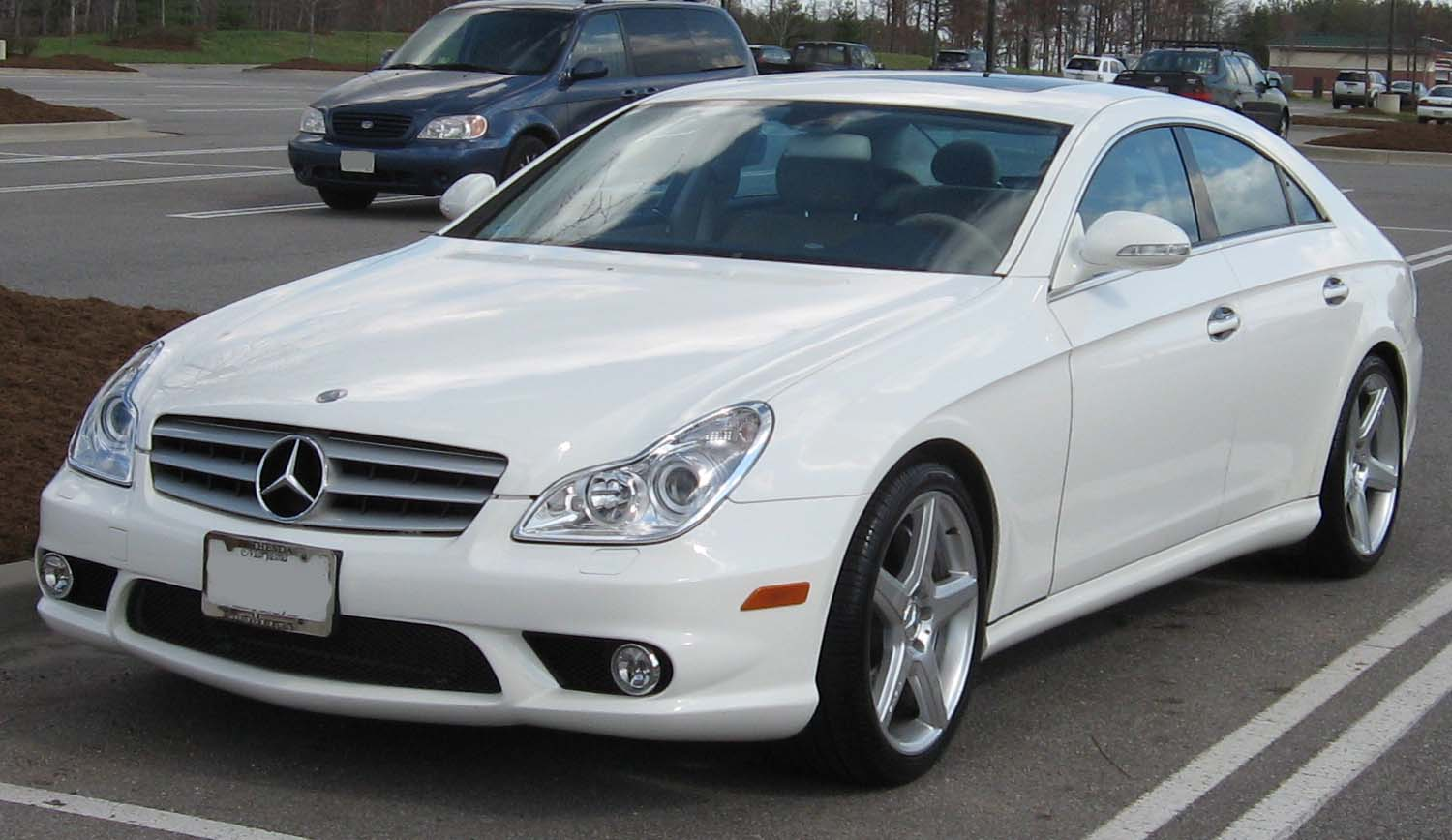 2006 Mercedes-Benz CLS55 AMG photographed in USA.